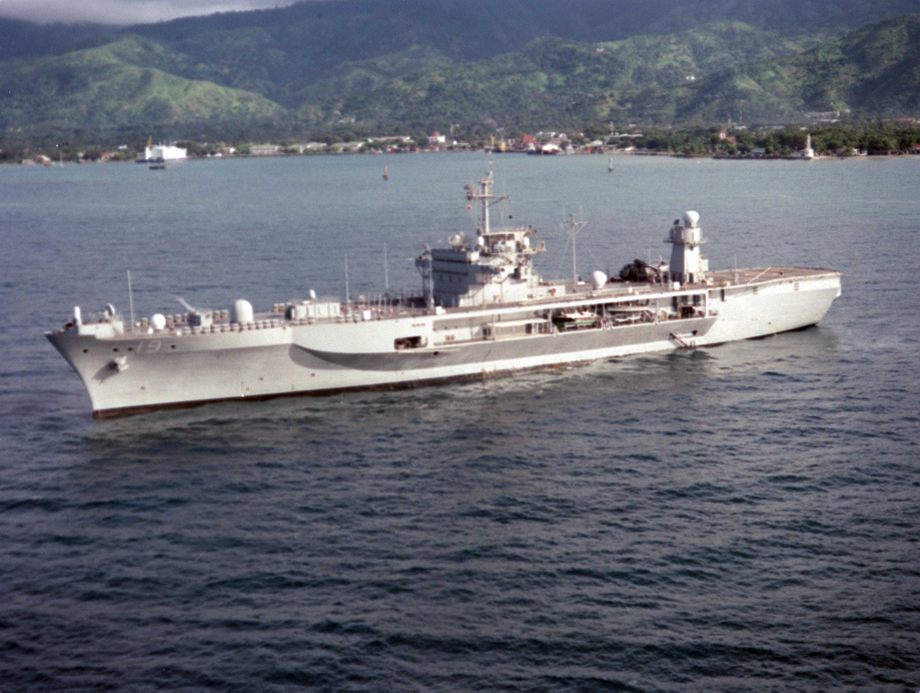 USS Blue Ridge (LCC-19), 10 February 2000, Dili, East Timor--USS Blue Ridge (LCC-19), Commander Seventh Fleet flagship, prepares to anchor 3000 yards from Dili, East Timor. (Photo by PH3 Daniel Mennuto).